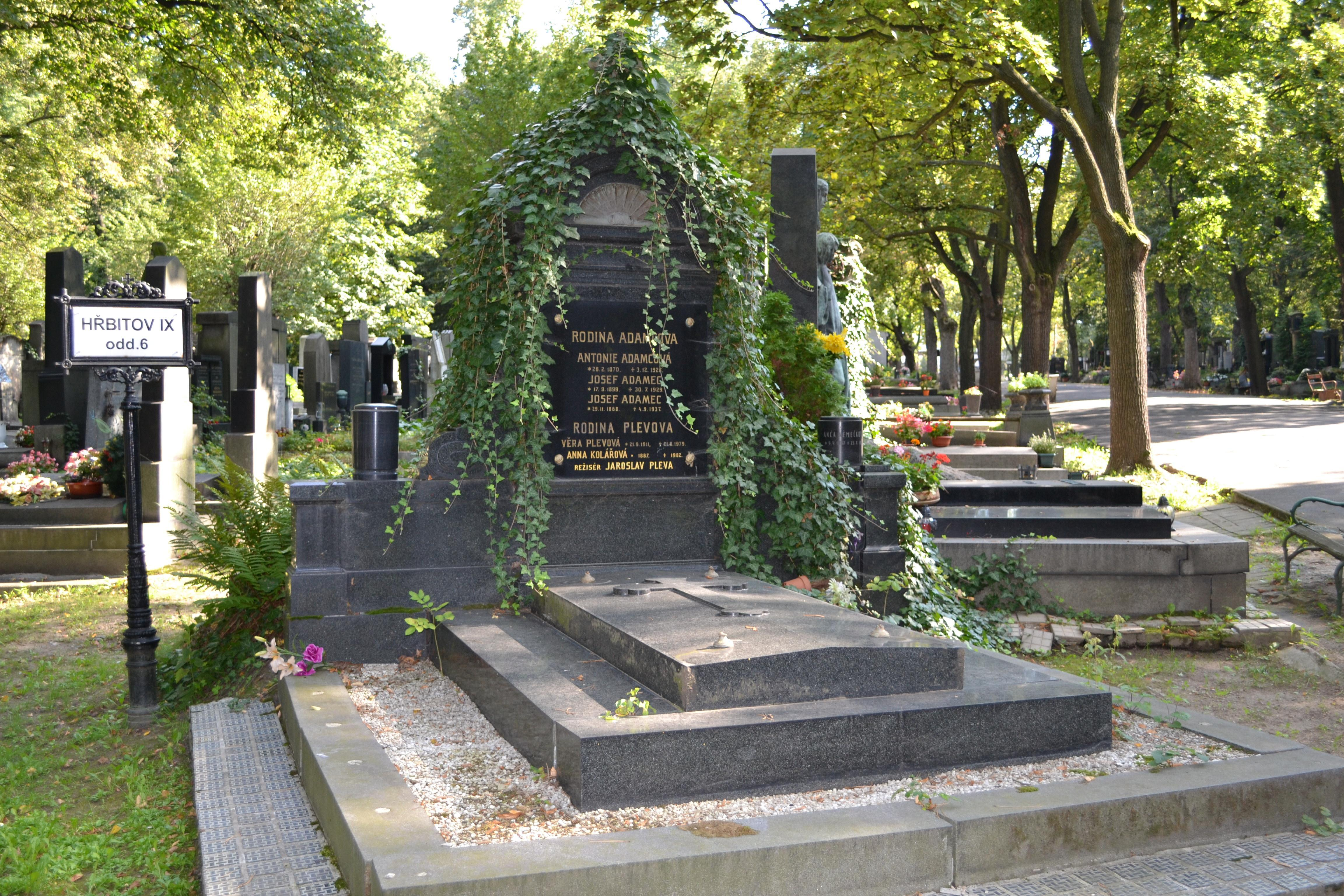 Tomb of Adamec and Pleva family at Olšany cemetery in Prague. Burial place of Eva Adamcová-Salzerová, Czech theatre actress and Jaroslav Pleva, Czech theatre director.